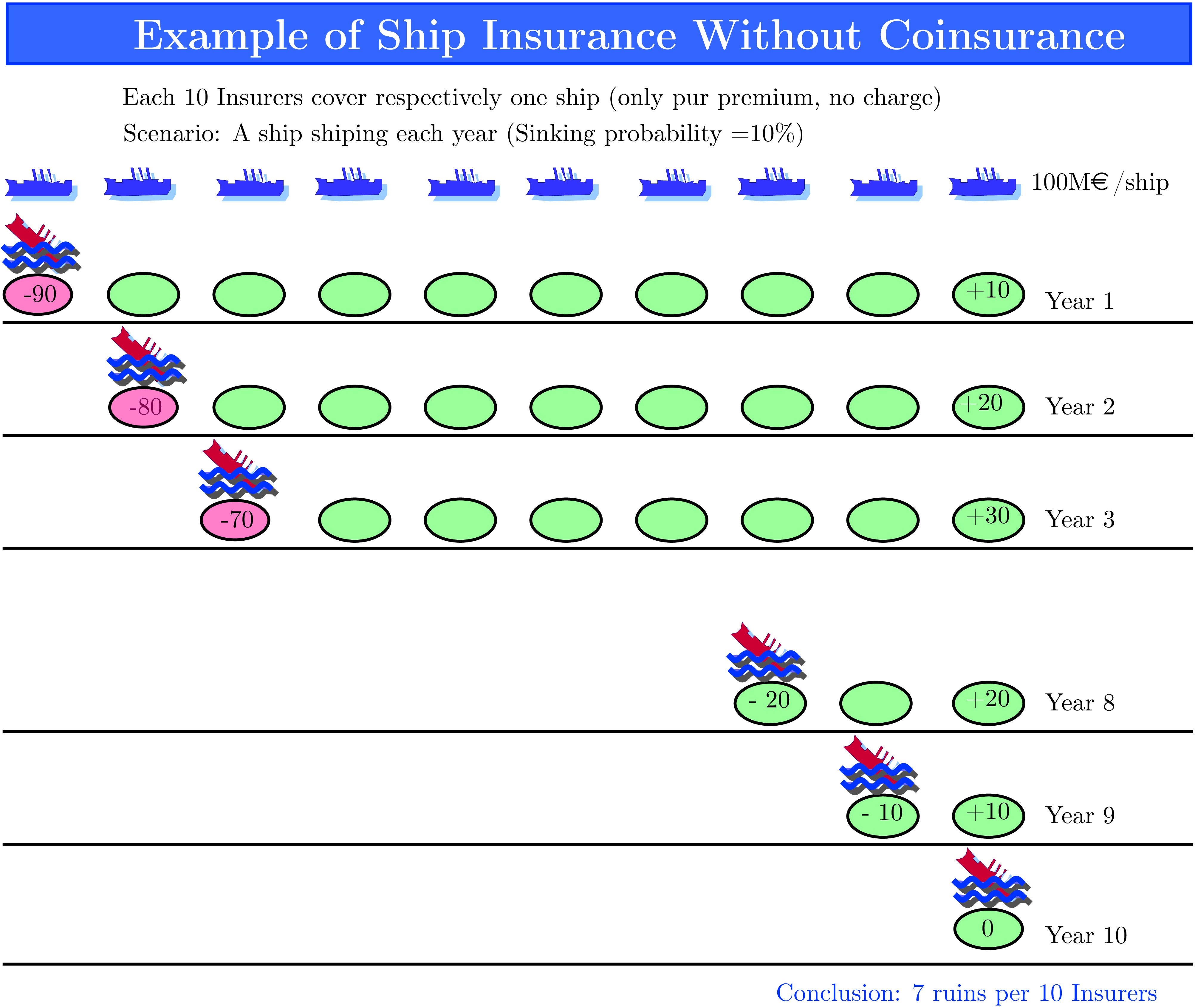 Example of shiping insurance of ten ship by ten insurers without coinsurance